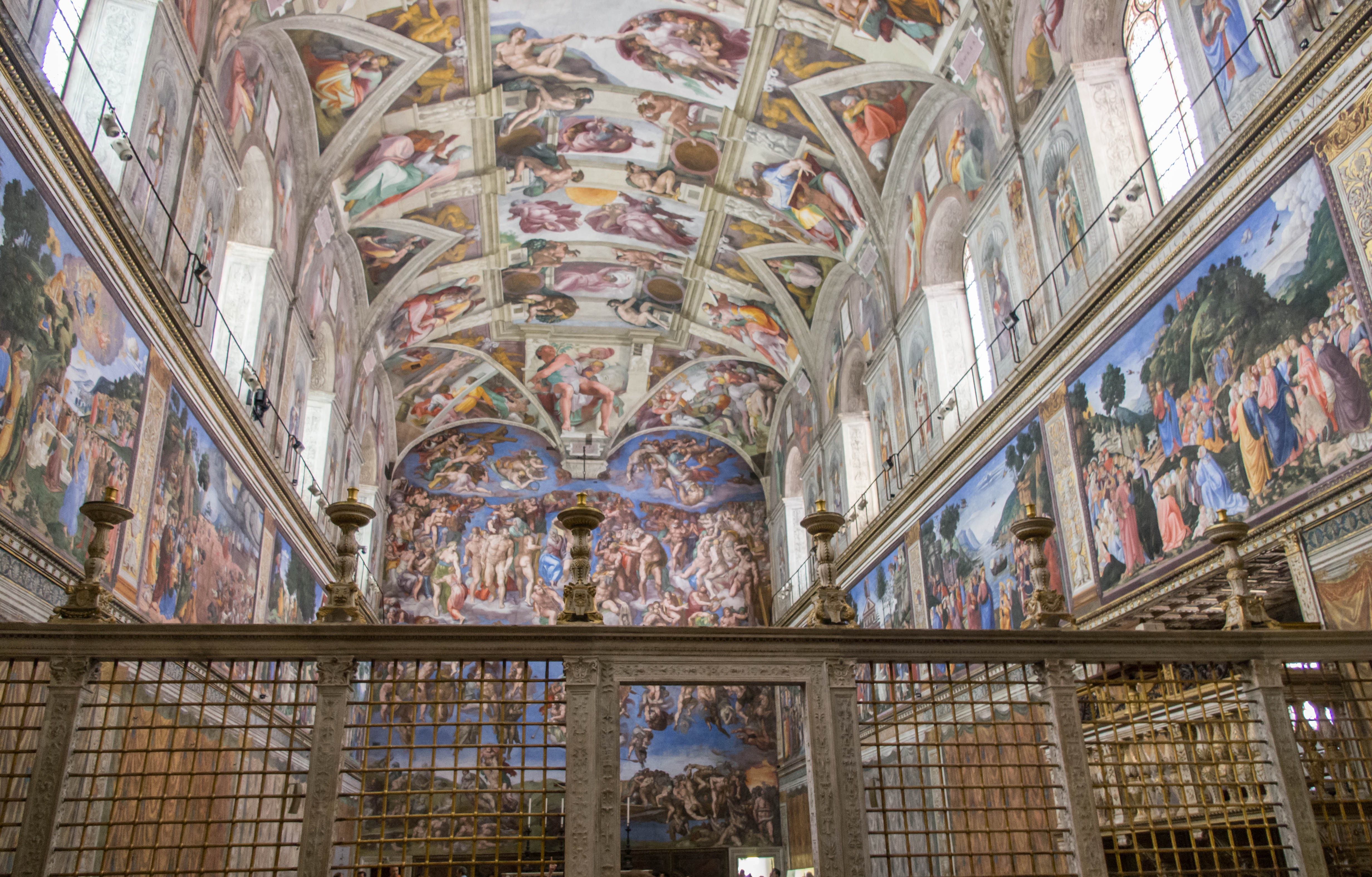 Sistine Chapel ceiling